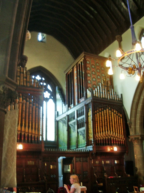 Organ, St Peter Church, Hindley